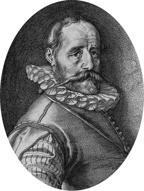 Hans Bol 25.9 x 17.8 cm engraving